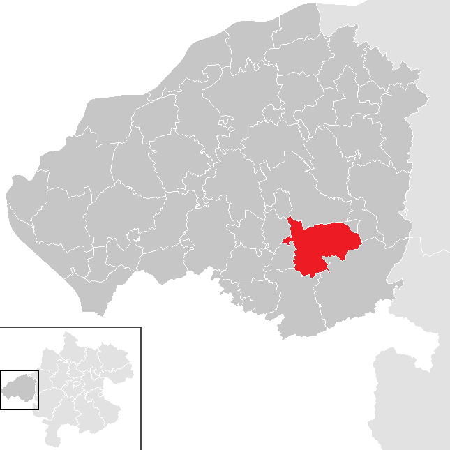 district Braunau am Inn